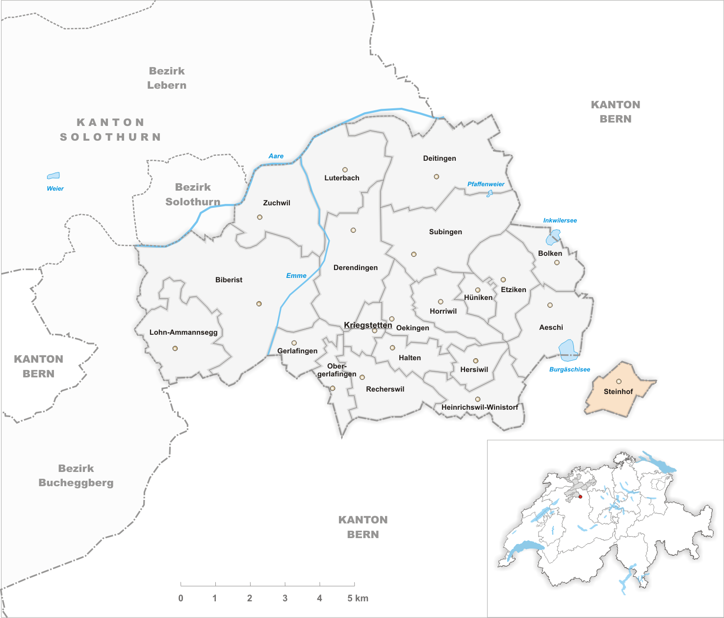 Municipality Steinhof